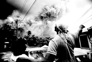 The September 22,1997 10:46 AM eruption of the Sufriere Hills volcano on the Caribbean island of Montserrat.